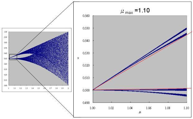 FORTRAN calculated tent map. Red reference lines are for magnification purpose.